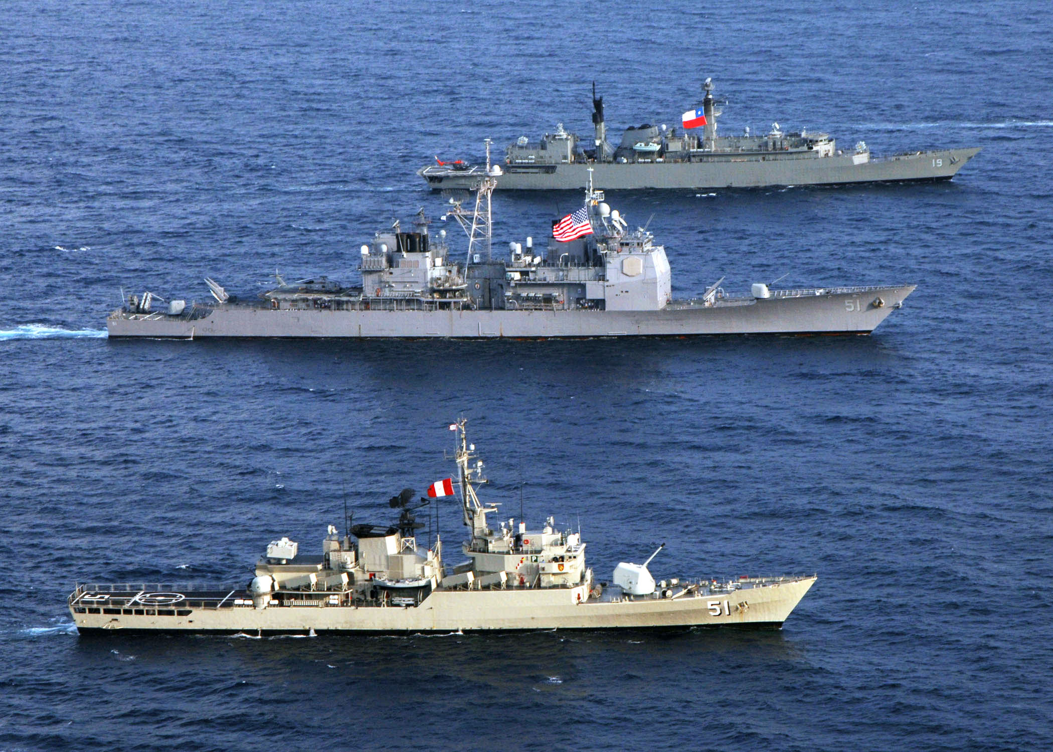 The guided missile cruiser USS Thomas S. Gates (CG 51), center, underway along side the Chilean frigate Williams (FF 19) and Peruvian frigate Carvajal (FM 51) in the Pacific Ocean. Thomas S. Gates is part of a multinational naval and coast guard force from six nations conducting UNITAS 46-05 Pacific Phase off the coasts of Colombia. The Colombian Navy in this year’s UNITAS Pacific Phase hosts Ecuador, Panama, Peru and the United States. During the two-week exercise, participating units have the opportunity to train as unified force in all aspects of naval operations, from maritime interdiction to anti-submarine and electronic warfare. U.S. Naval Forces Southern Command sponsors UNITAS exercises with the objective to foster cooperation and develop interoperability among the navies of the region.